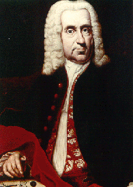 Johann Heinrich Schulze (1687-1744) German Scientist